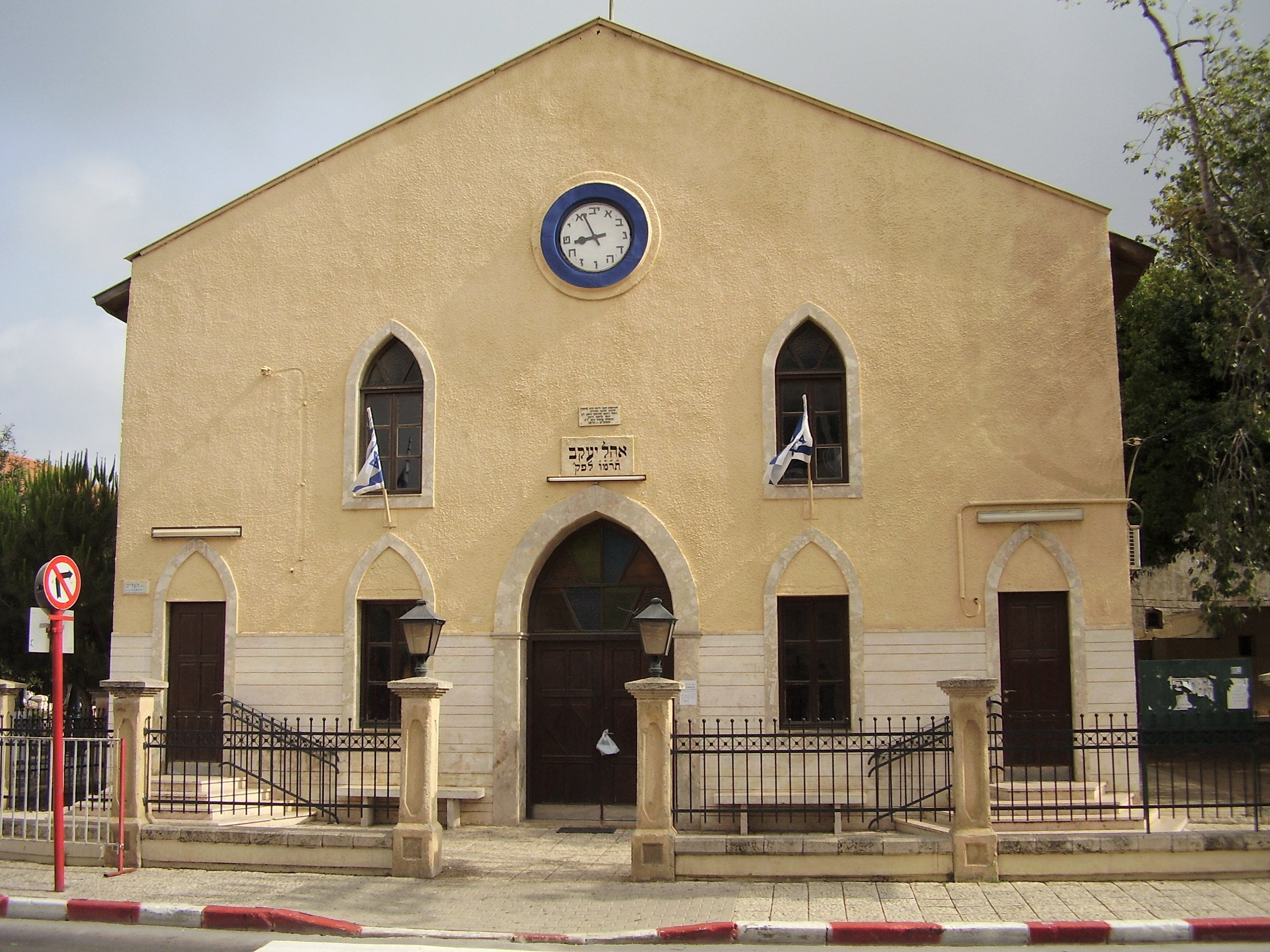 Front of the Ohel Yaacov sinagogue, facing HaNadiv st., in Zichron Yaacov, Israel